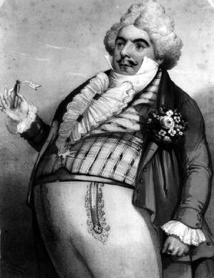 Baryton Luigi Lablache as Don Pasquale